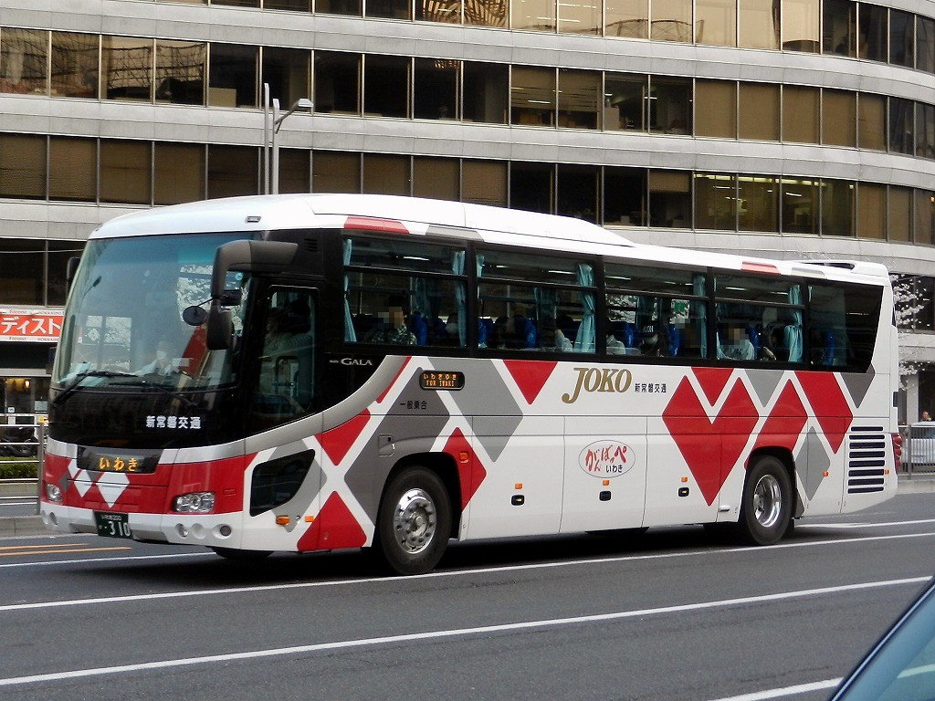 New-Joban kotsu Isuzu Gala (PKG-RU1ESAJ)